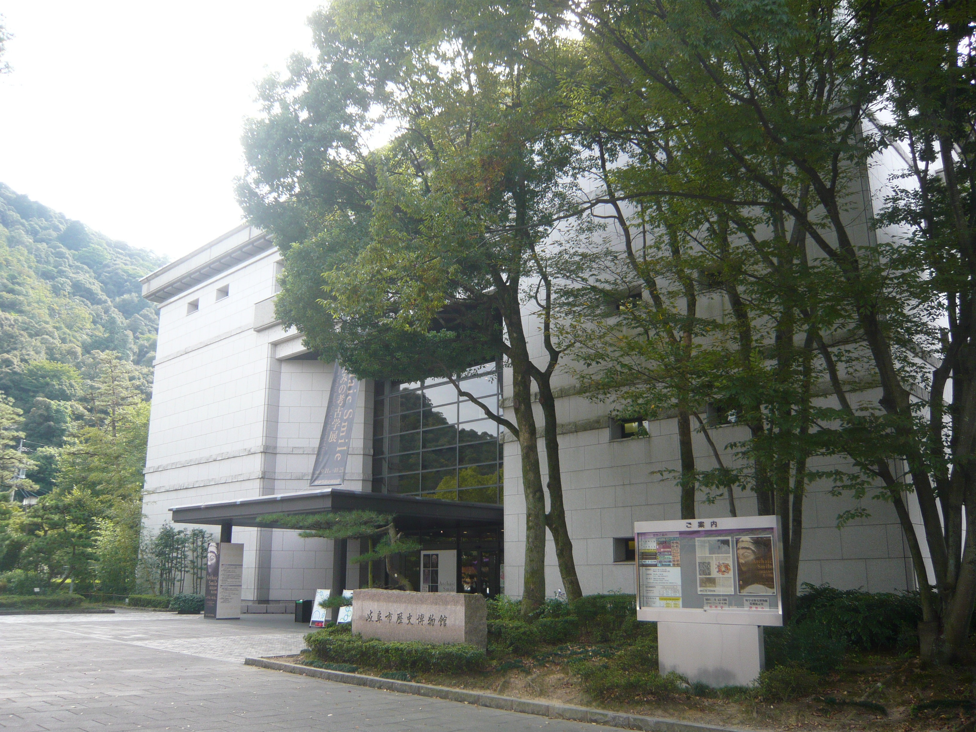 Gifu City Museum of History（岐阜市歴史博物館）,Gifu,Gifu,Japan（岐阜県岐阜市）で撮影。